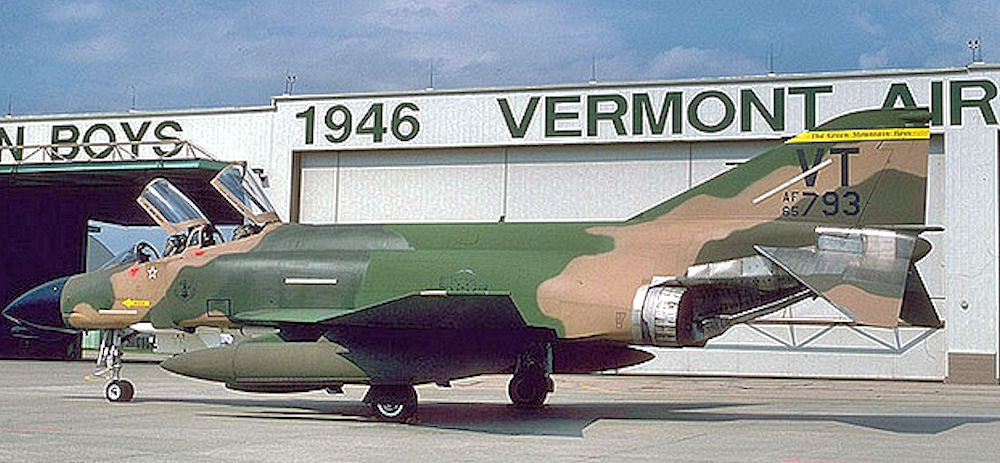 134th Fighter-Interceptor Squadron - McDonnell F-4D-29-MC Phantom 65-0793. Retired to AMARC as FP0468 Mar 29, 1990. To Fritz Enterprises Jun 1, 1999 and scrapped. Plane painted as 0793 on display at Vermont ANG Base, Burlington, VT is actually 66-0240.